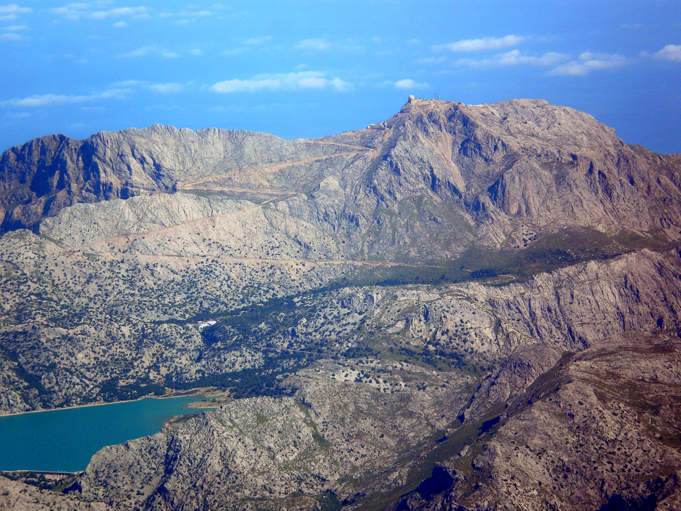 The Puig Mayor (1445 m., Majorca, Spain) in the morning of 16th June 2008 (from a plane).